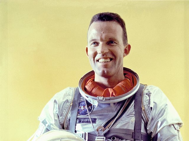 Mercury 9 Crewman: Cooper